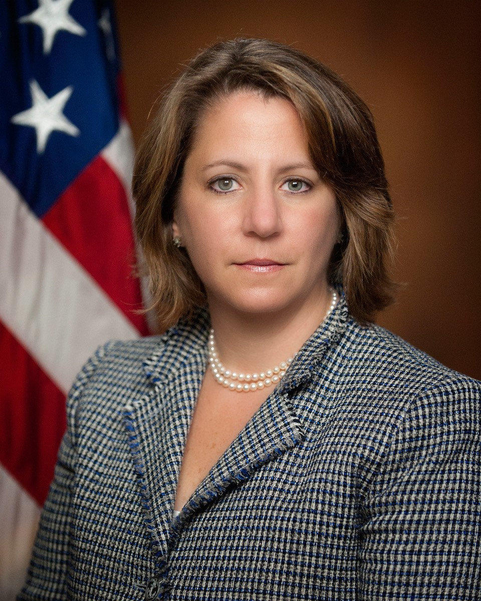 Official Portrait of former Assistant Attorney General for National Security, Lisa Monaco.